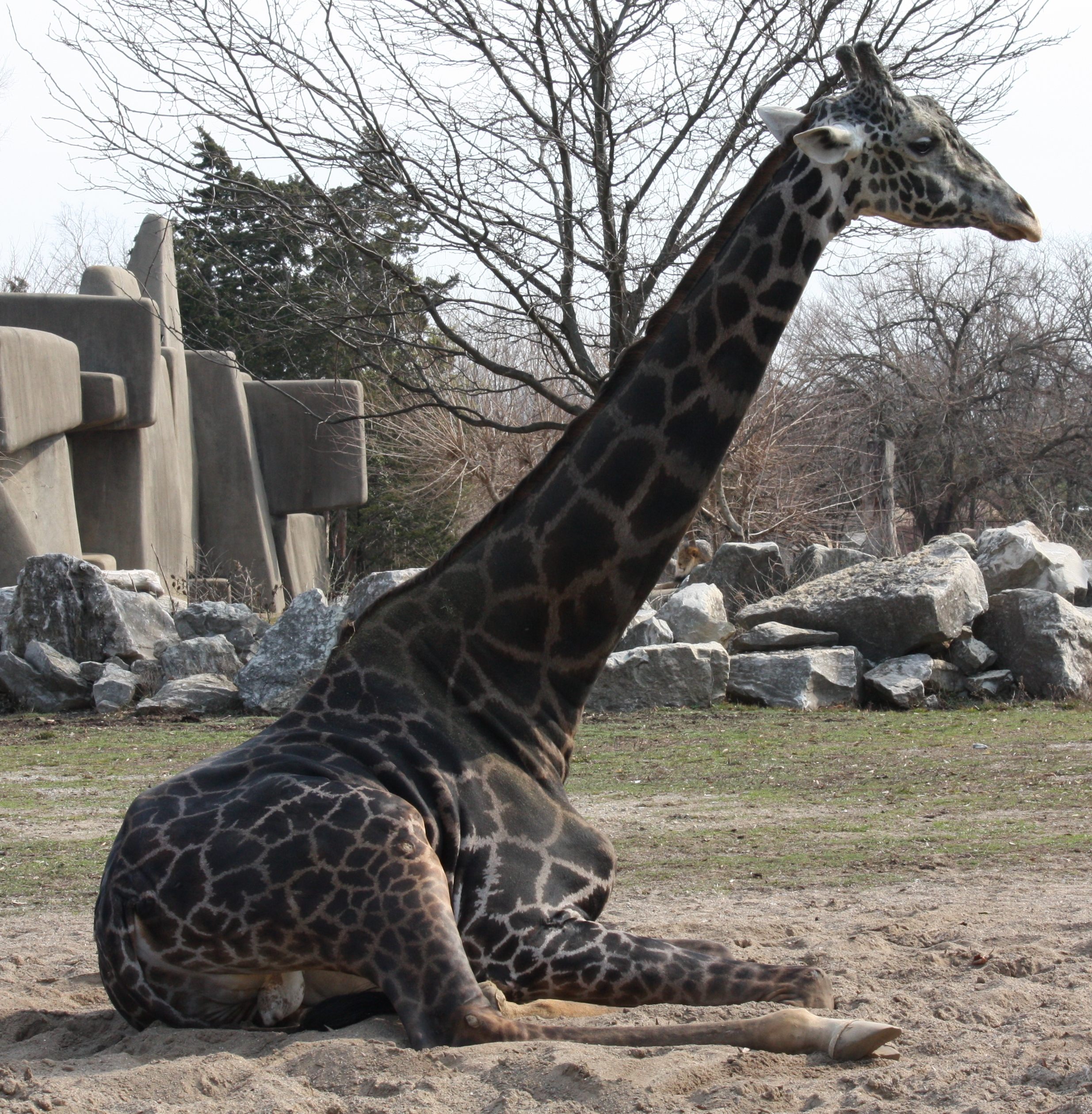 Dominate Male Masai Giraffe (Giraffa camelopardalis tippelskirchi) at the Louisville Zoo